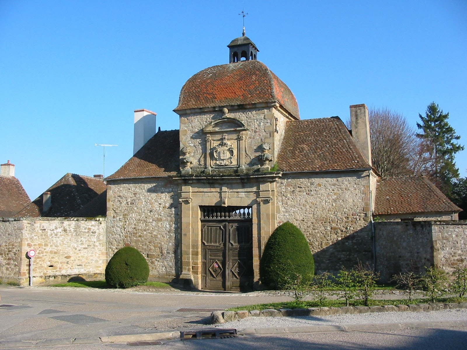 Ancient priory door